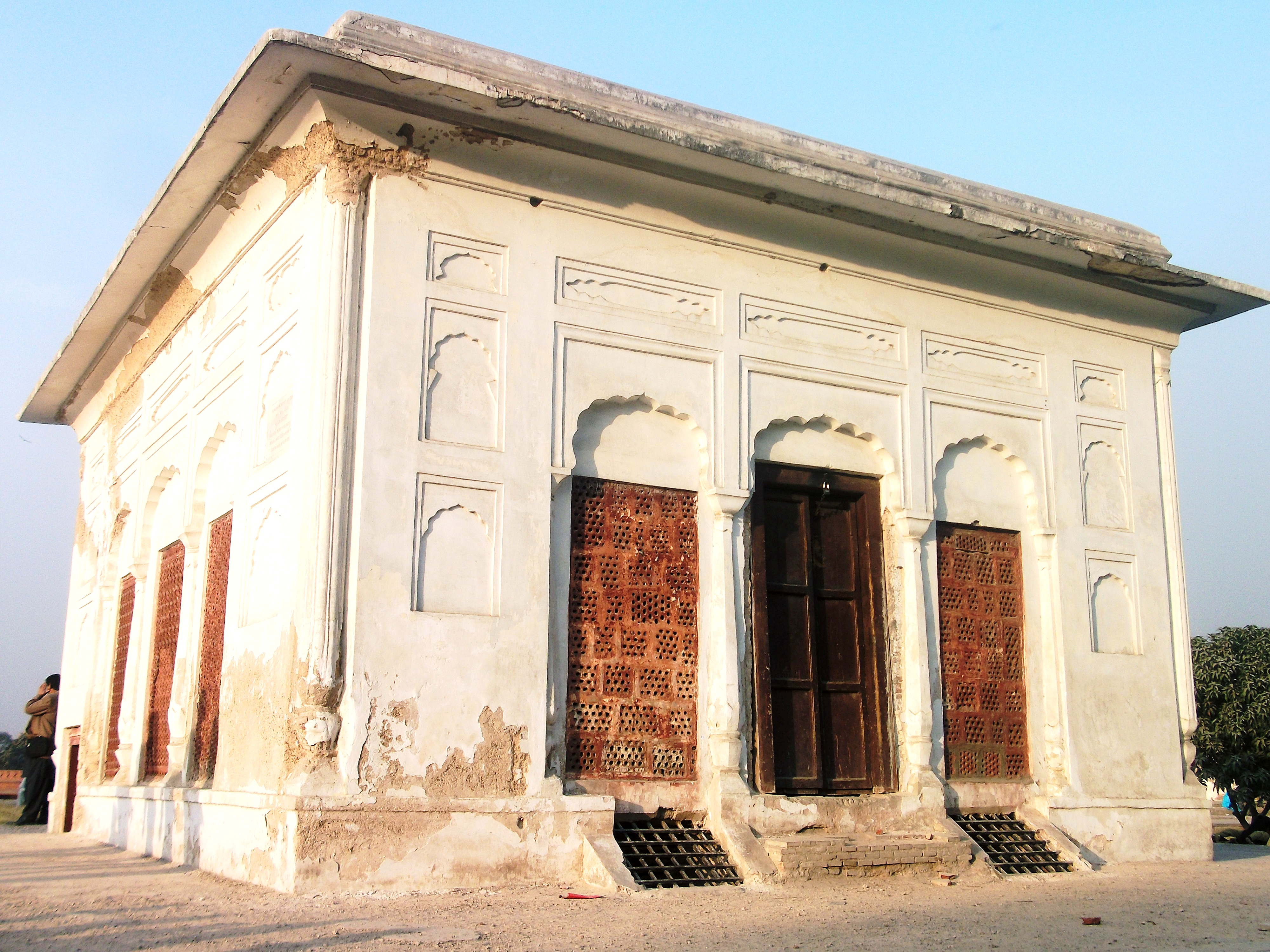 Moorcroft Pavilion in Shalimar Gardens, Lahore, Pakistan